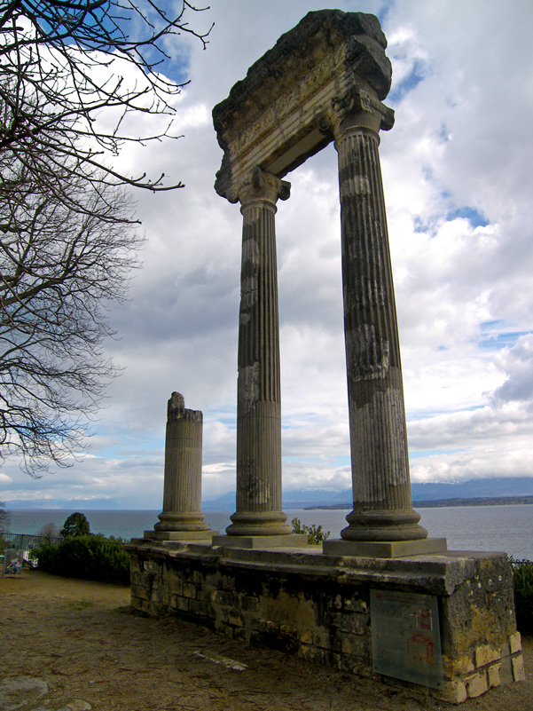 Roman column in Switzerland (Nyon) on the edges of the lake Léman